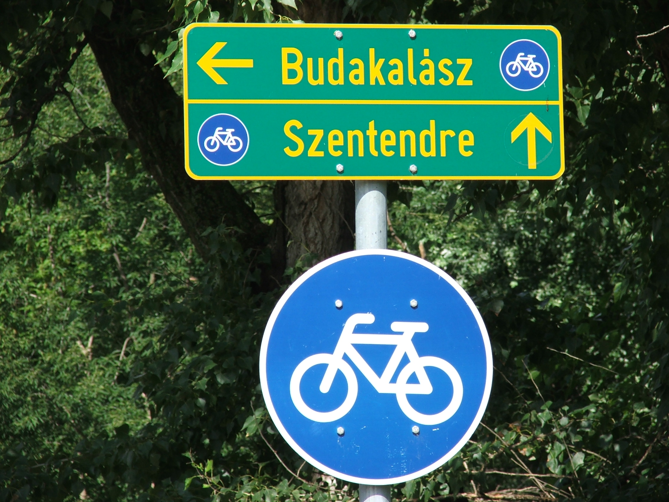 Danube Bikeway, Budakalász, Hungary